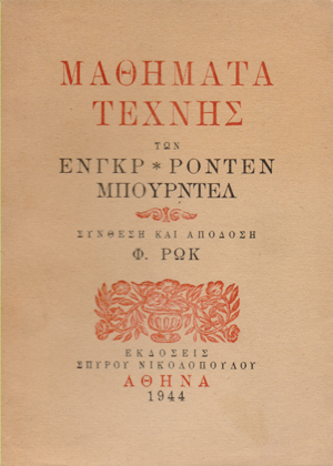 Book cover from the book of Fokion Rok: Μαθήματα τέχνης των “Ενγκρ, Ροντέν, Μπουρντέλ